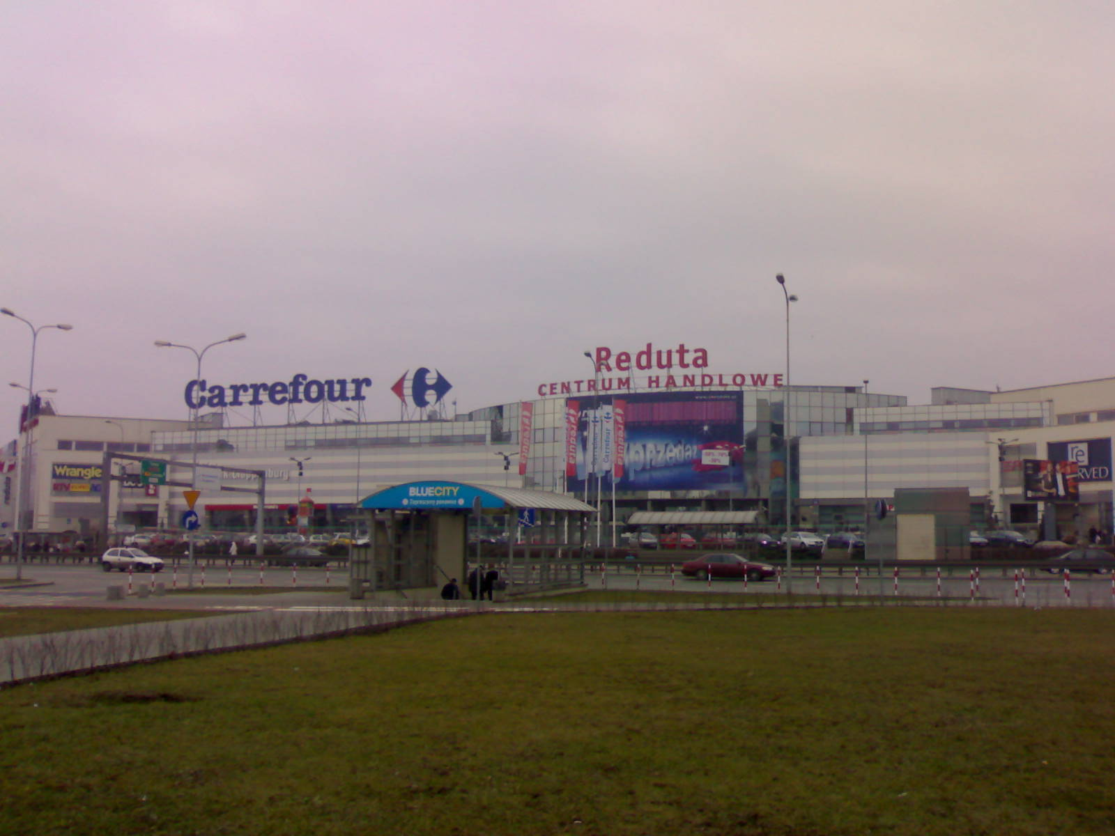 The front of CH Reduta shopping mall